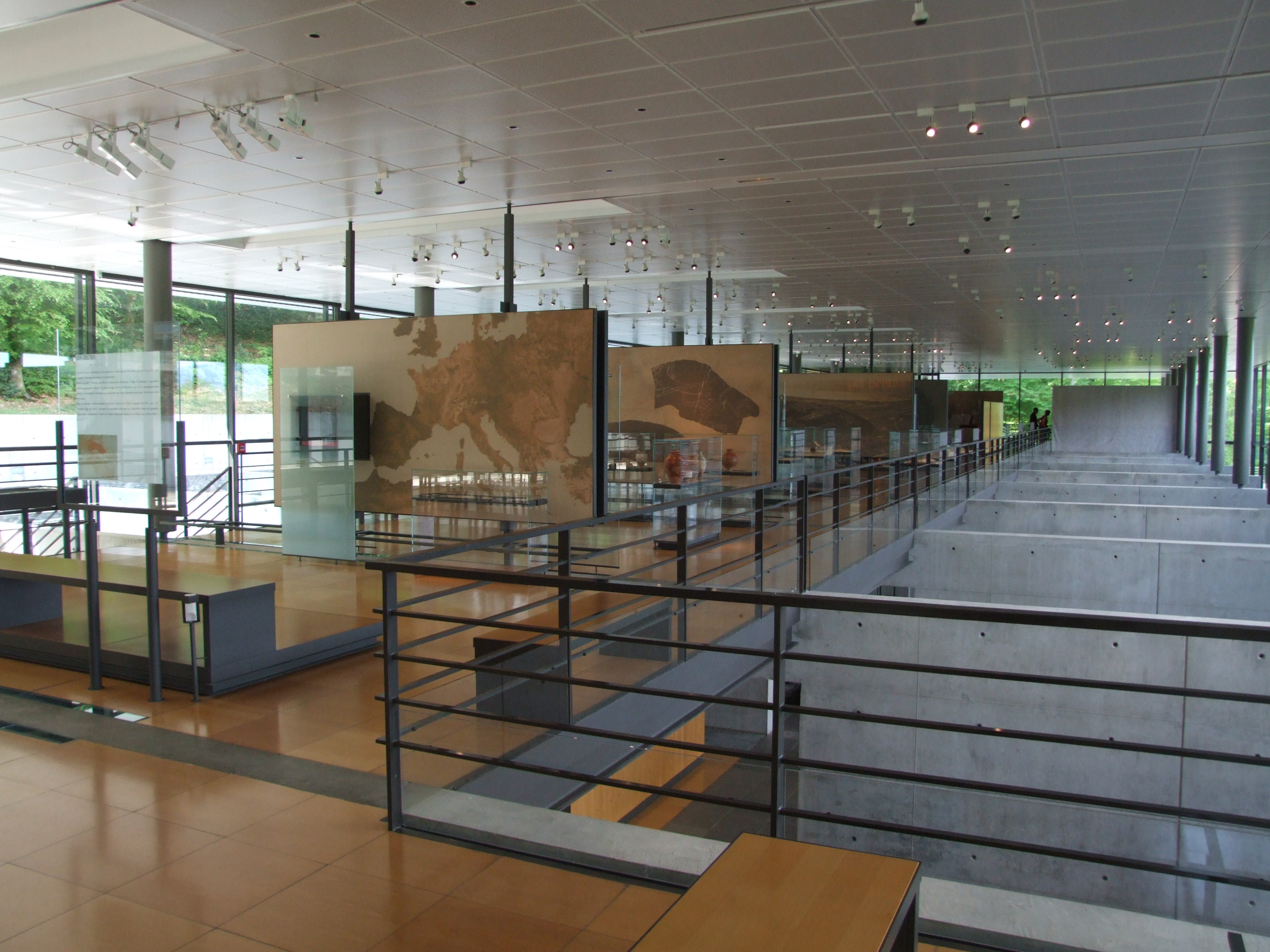 Bibracte, Burgundy, FRANCE